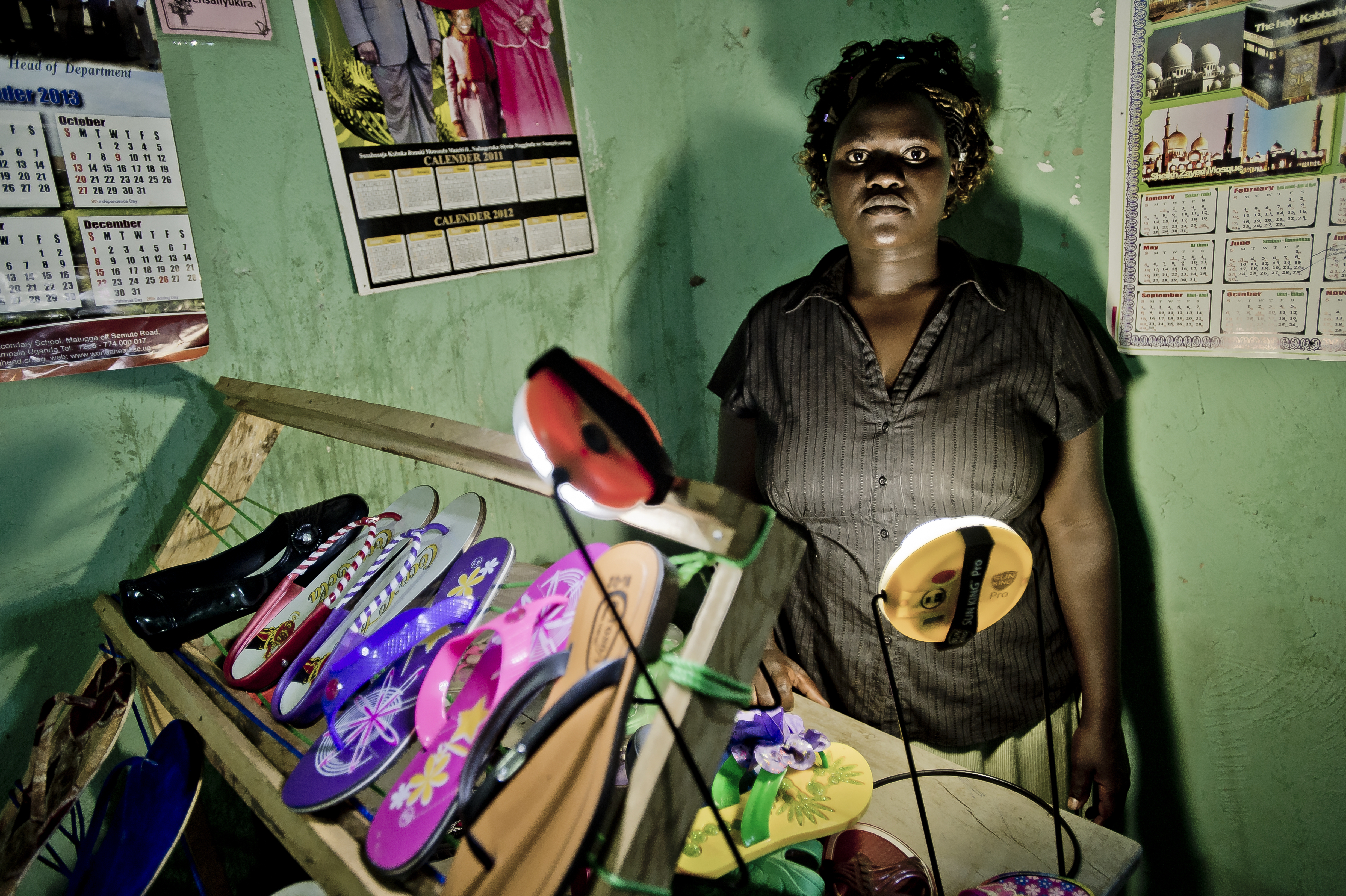 As part of its inclusive finance practice area, UNCDF's CleanStart programme helps a women in Uganda utilise solar lighting solutions in off-grid areas.